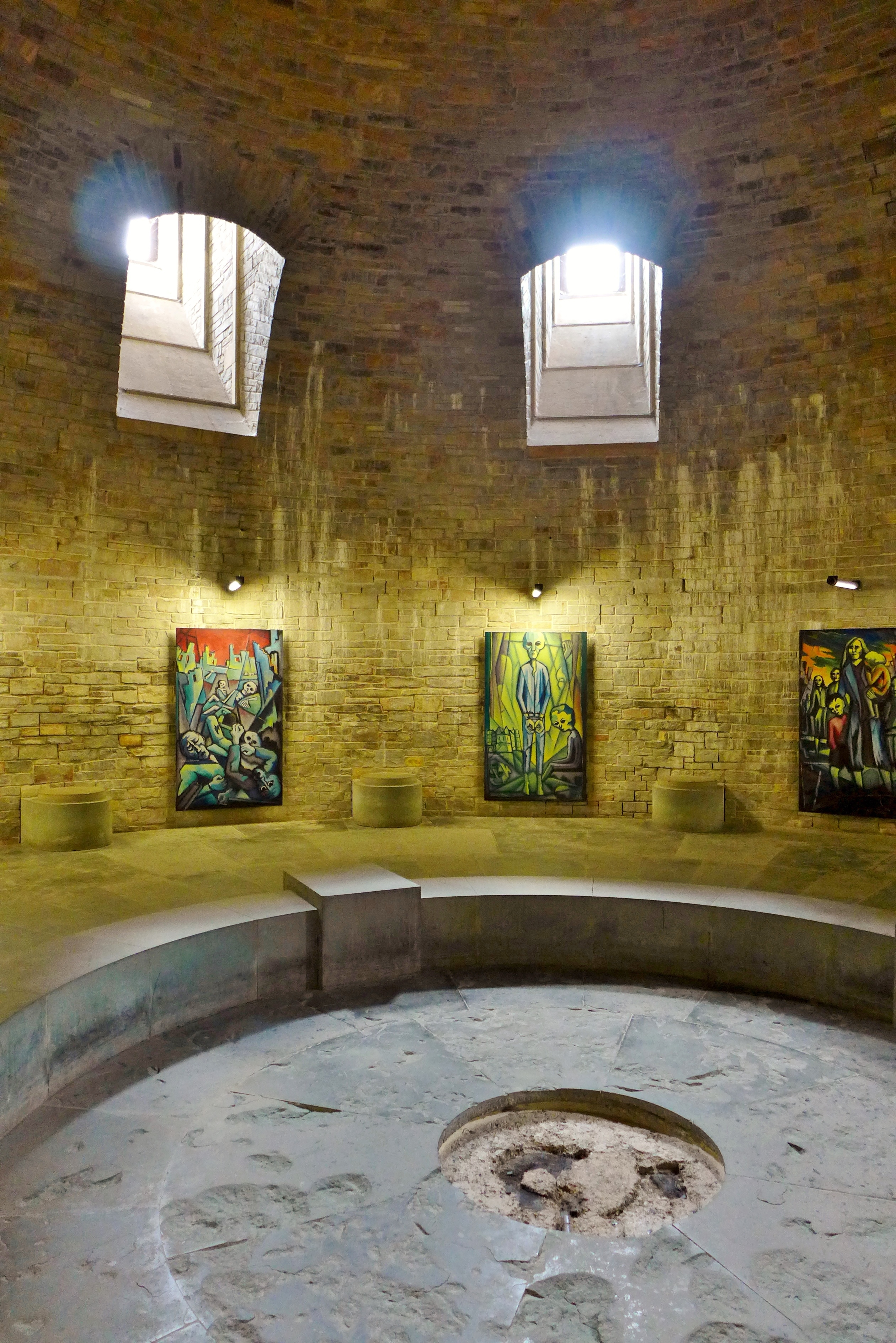 View of the vault in the North Tower of the Wewelsburg, North Rhine-Westphalia, Germany.